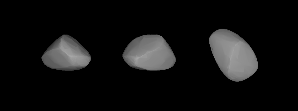 A three-dimensional model of 714 Ulula that was computed using light curve inversion techniques.